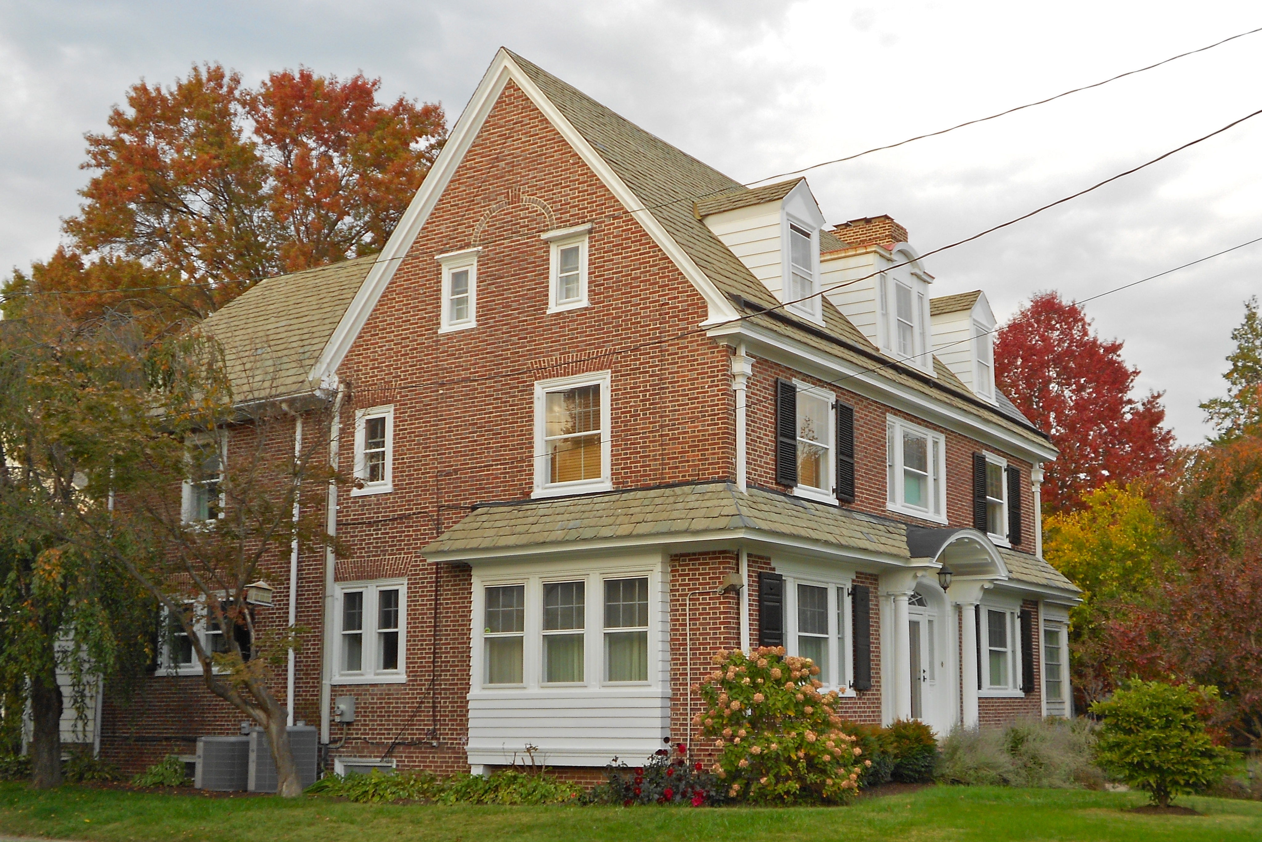 House on Baynard Boulevard (2401) in the Baynard Boulevard Historic District on the NRHP since July 26, 1979. The HD covers Baynard Blvd. between 18th St. and Concord Ave.